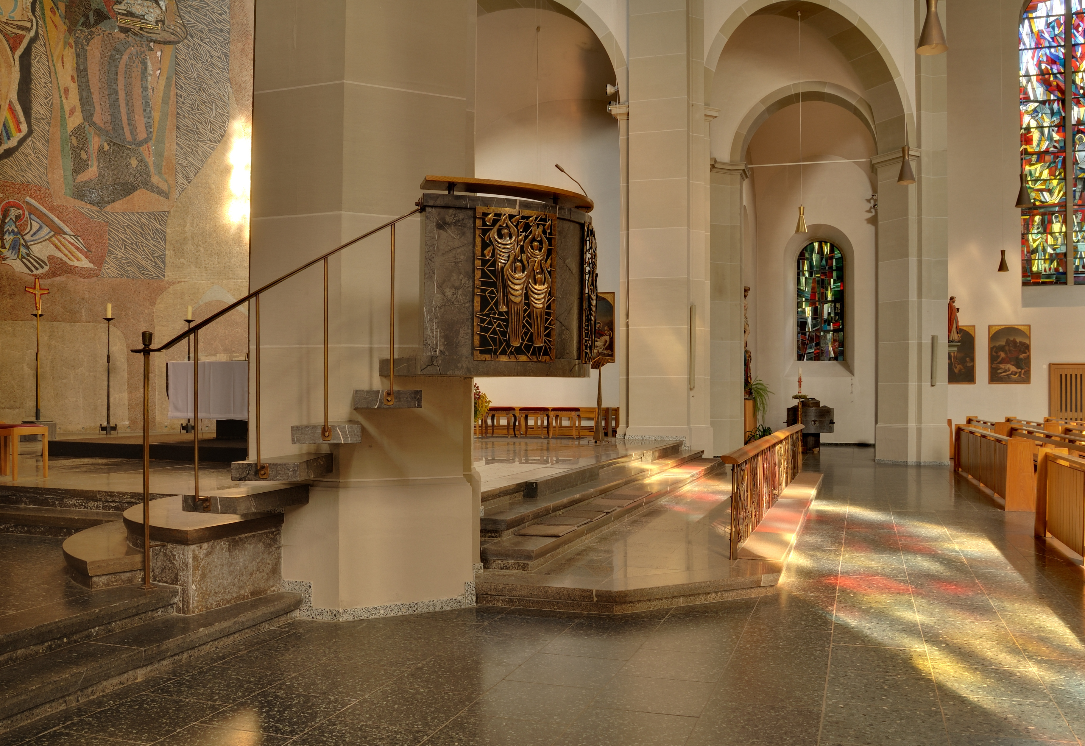 Todtnau: Saint John the Baptist Church